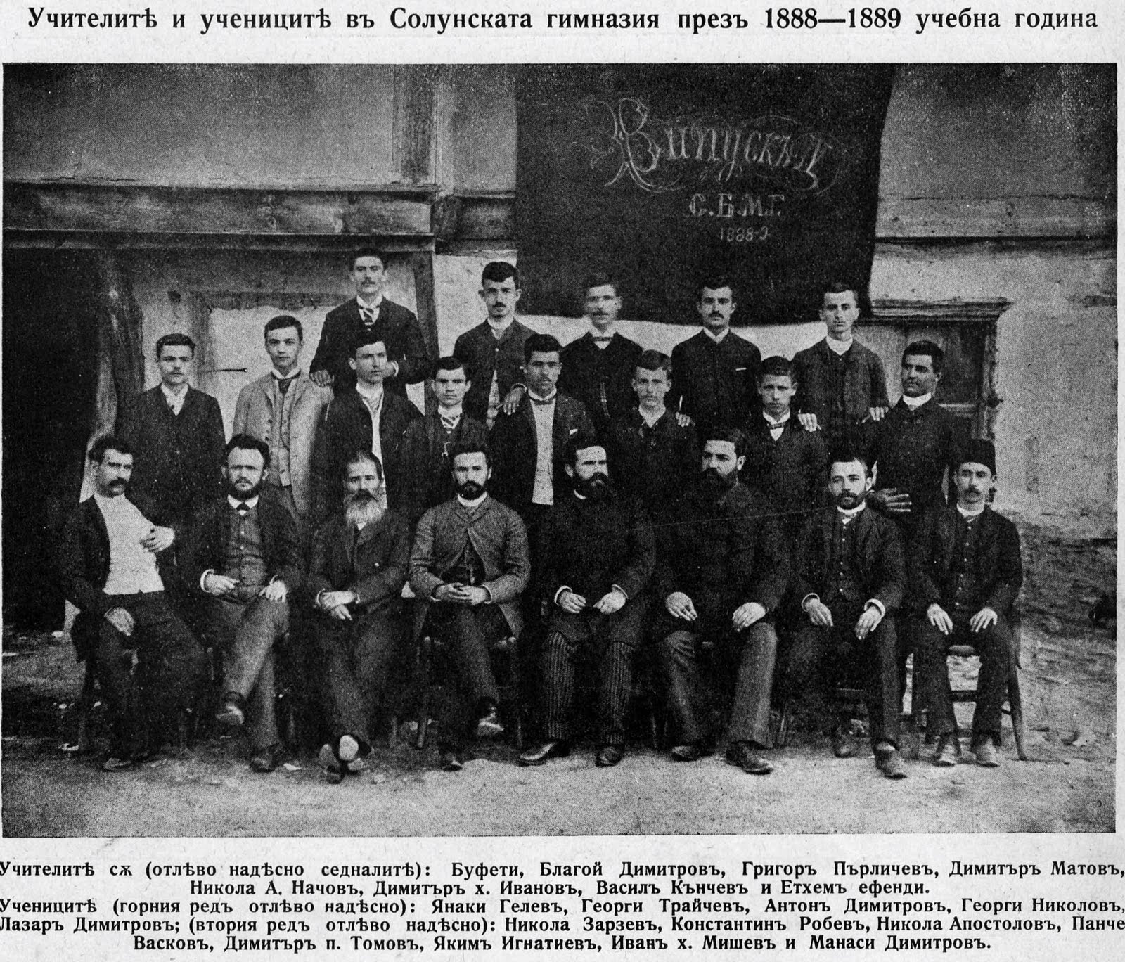 Teachers and students from the Bulgarian high men school in Solun / Thessaloniki